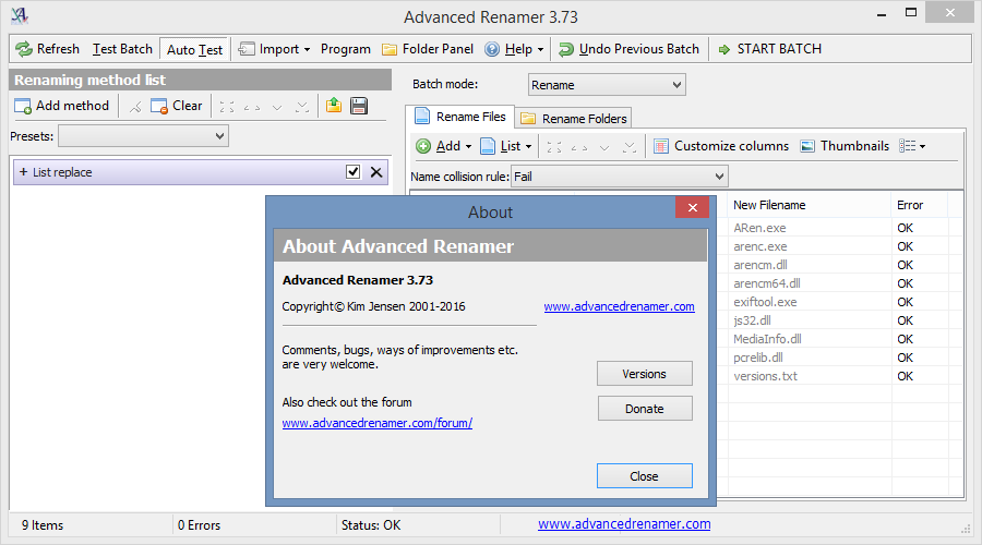 Advanced Renamer v3.73 Portable displaying About window